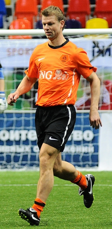 Arthur Numan at 2011 Legends Cup